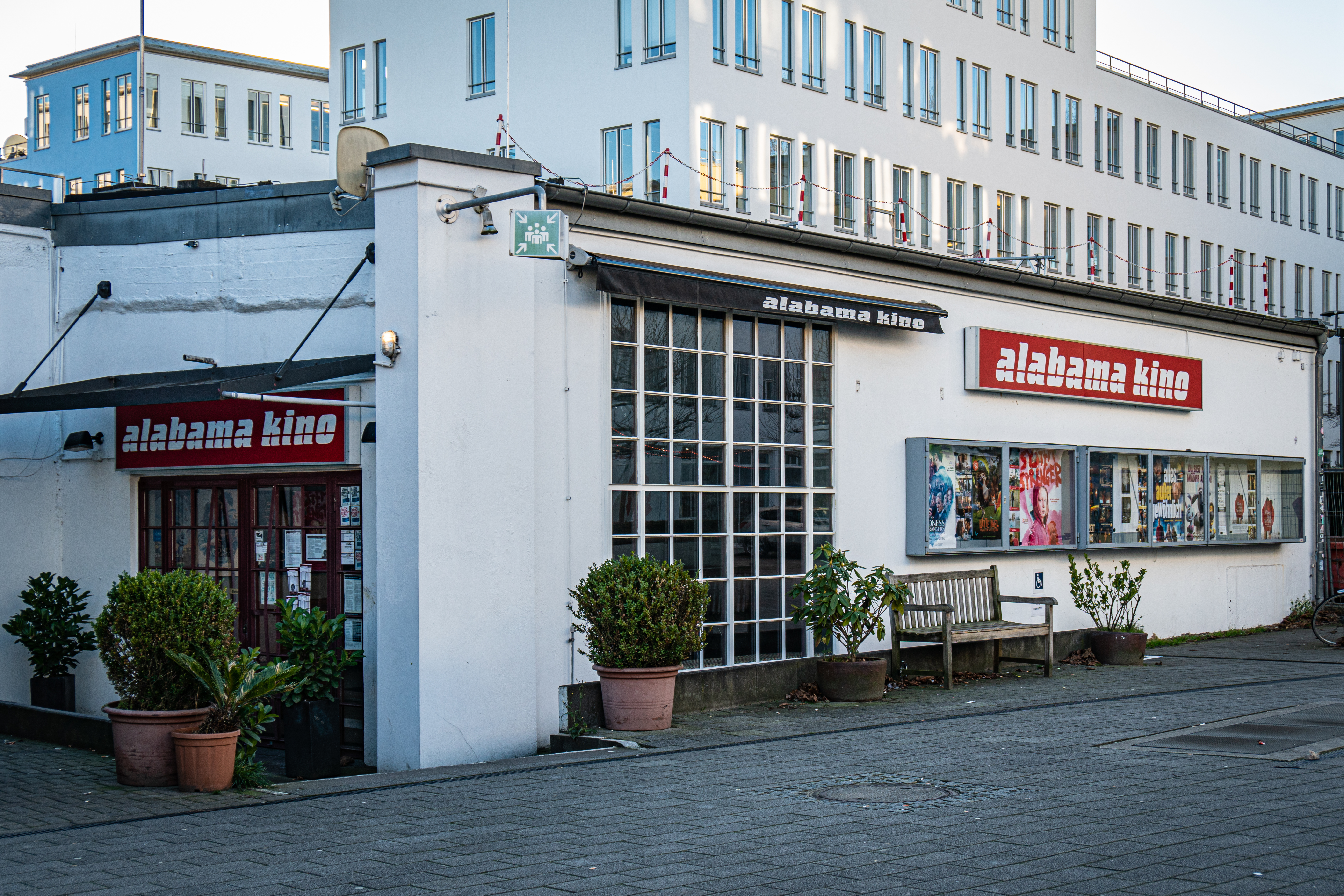 Alabama Cinema located in cultural center Kampnagel in Hamburg, Germany